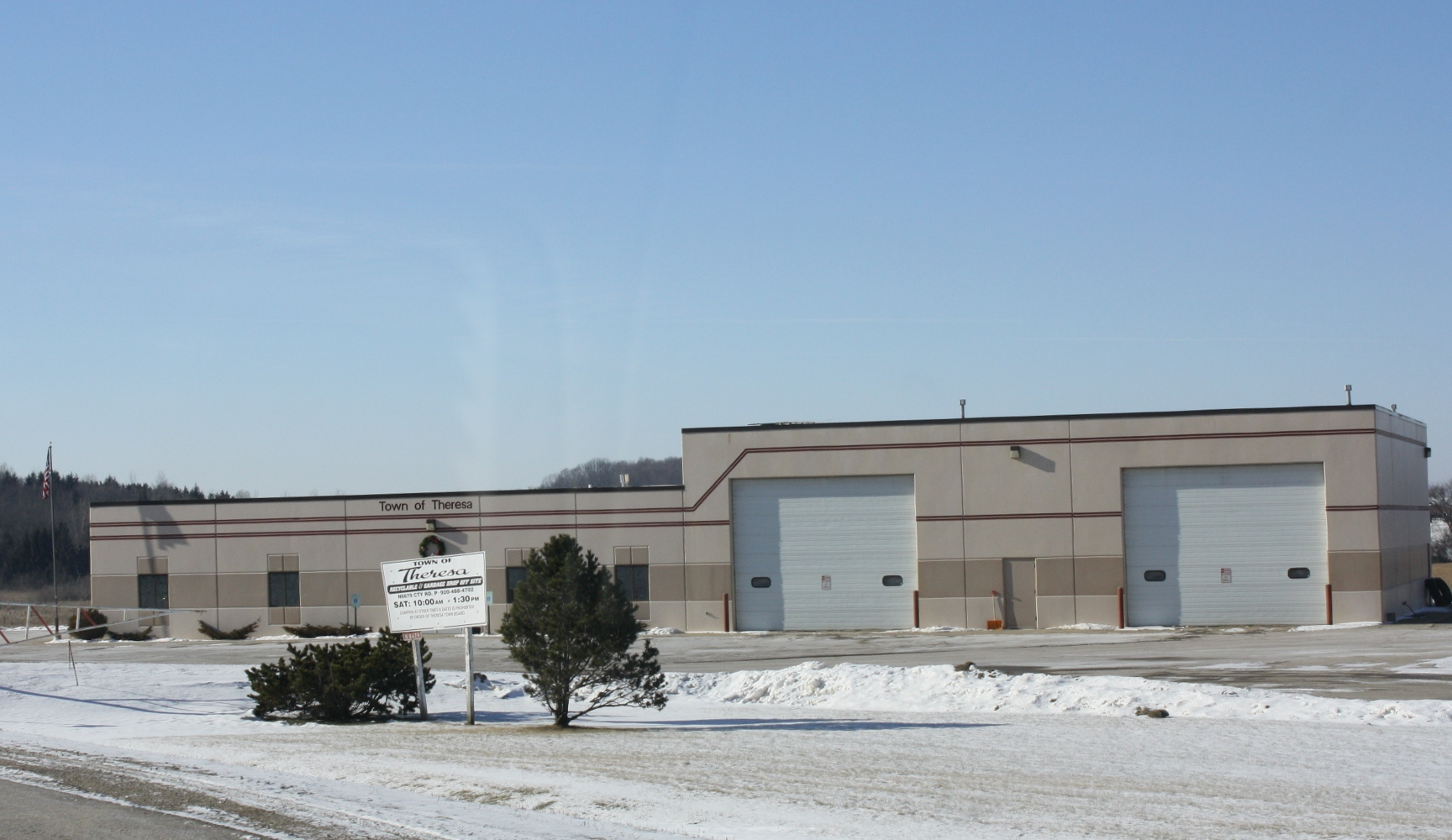 The town hall for Theresa (town), Wisconsin. The TOWN and VILLAGE are independent political units in Wisconsin.